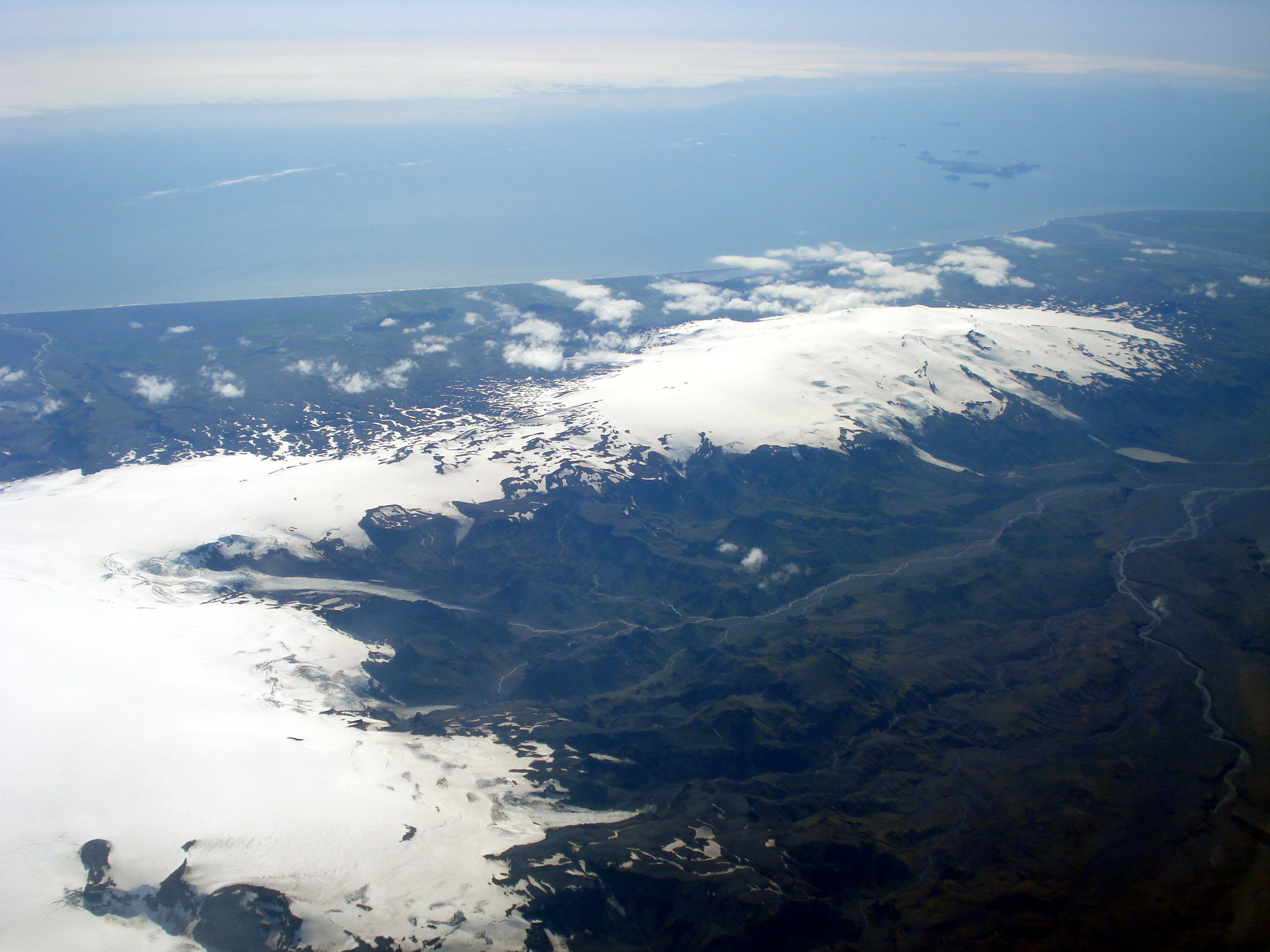 Þórsmörk and Eyjafjallajökull glacier in Iceland